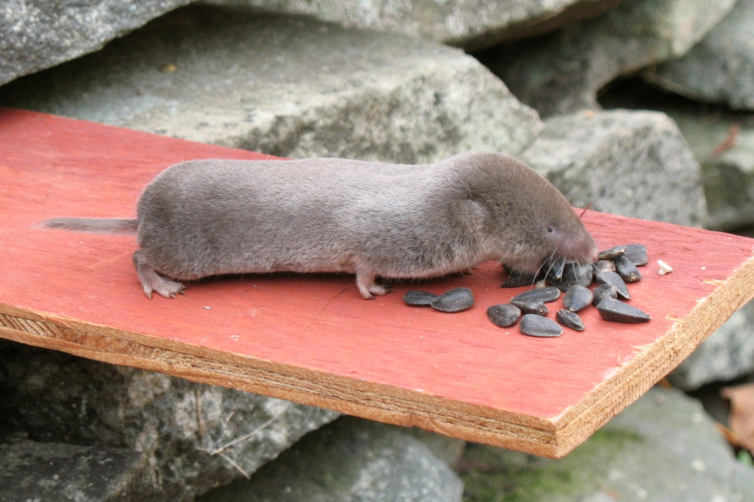 Grande musaraigne -- Northern Short-tailed Shrew Ordre des soricomorphes -- Order Soricomorpha Bas-Saint-Laurent -- Province de Québec -- Canada Prise en october 2006 -- Taken in October 2006